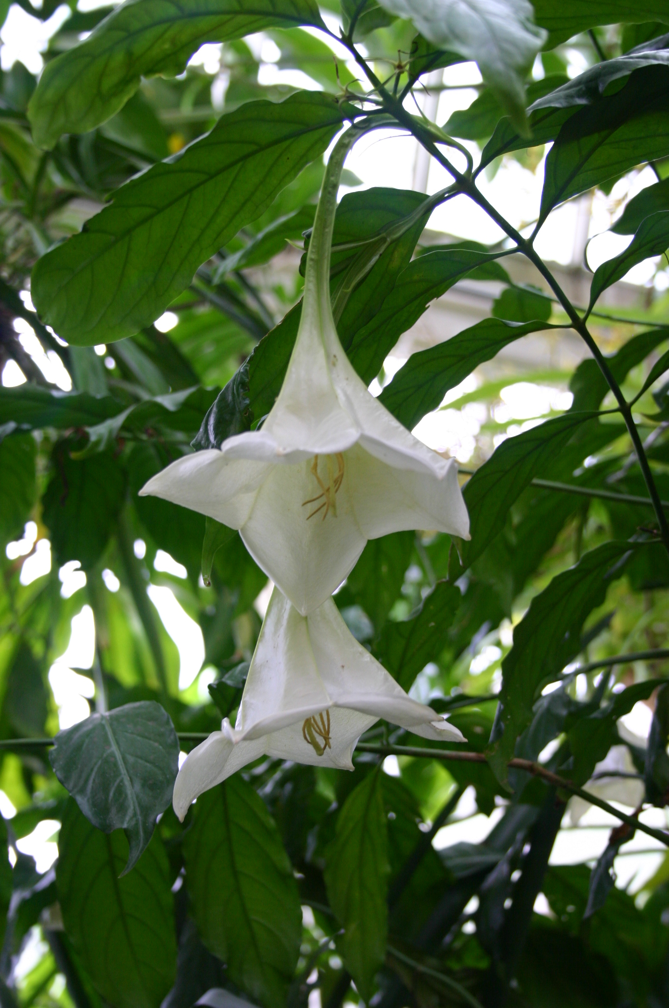 Osa pulchra. Taken at the New York Botanical Gardens in the Bronx. Creative Commons photo by ideonexus. Please feel free to reuse for any purpose!